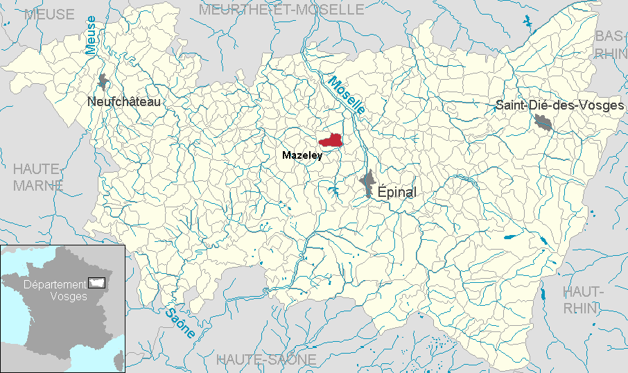 Mazeley in the department of Vosges, Lorraine, France